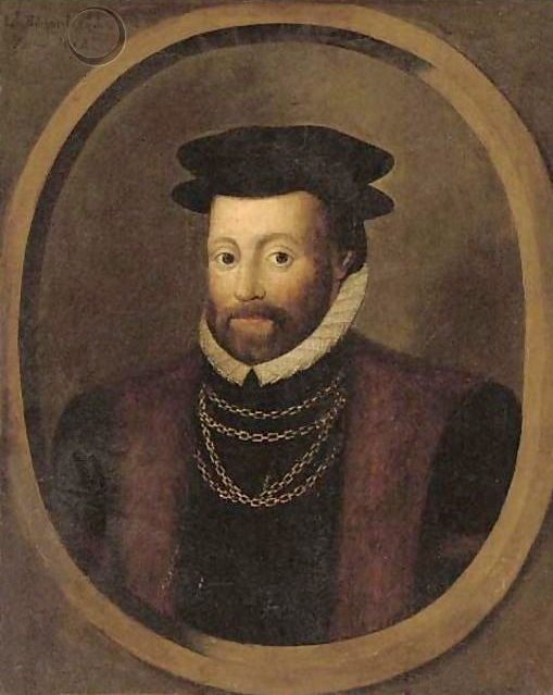 A 16th century portrait of Edward North (c. 1504–1564), 1st Baron North of Kirtling, Cambridgeshire.